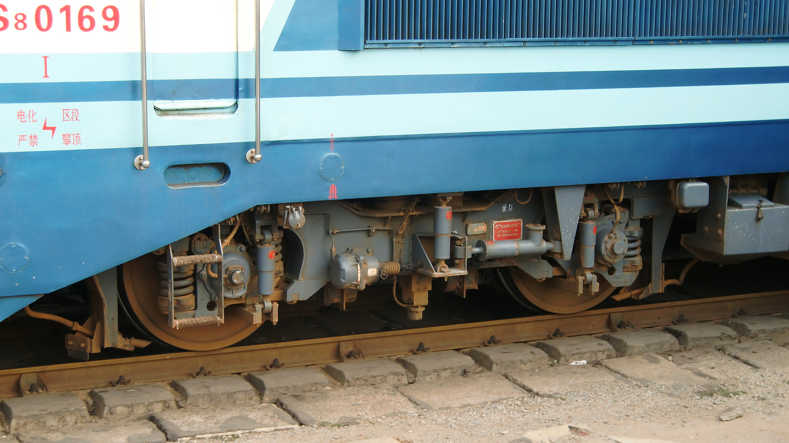 The bogie of a China Railways SS8 electric locomotive